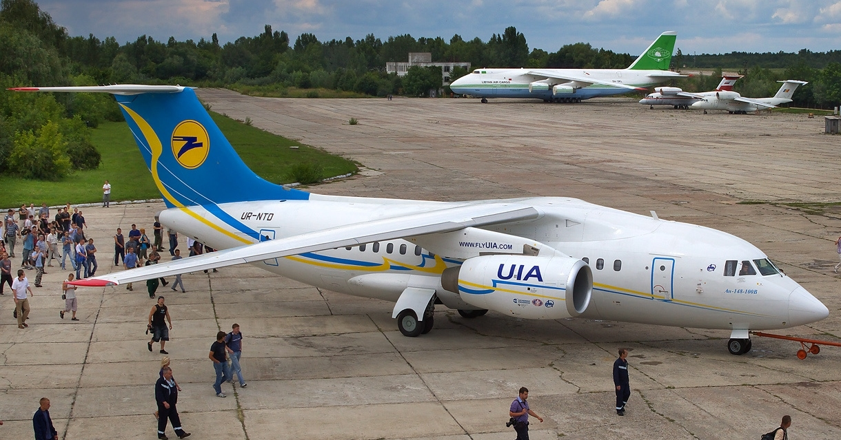 Ukraine International Airlines Antonov An-148-100B